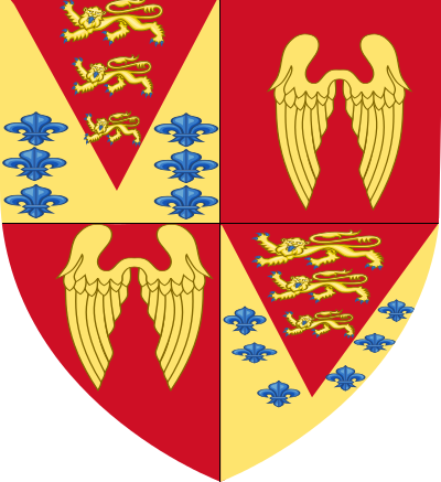 Arms of Edward Seymour, 1st Duke of Somerset, KG, (c.1500-1552): Quarterly, 1st and 4th: Or, on a pile gules between six fleurs de lys azure three lions of England (special grant to Edward Seymour, 1st Duke of Somerset (c. 1500–1552)); 2nd and 3rd: Gules, two wings conjoined in lure or (Seymour) (Debrett's Peerage, 1968, p.1036)